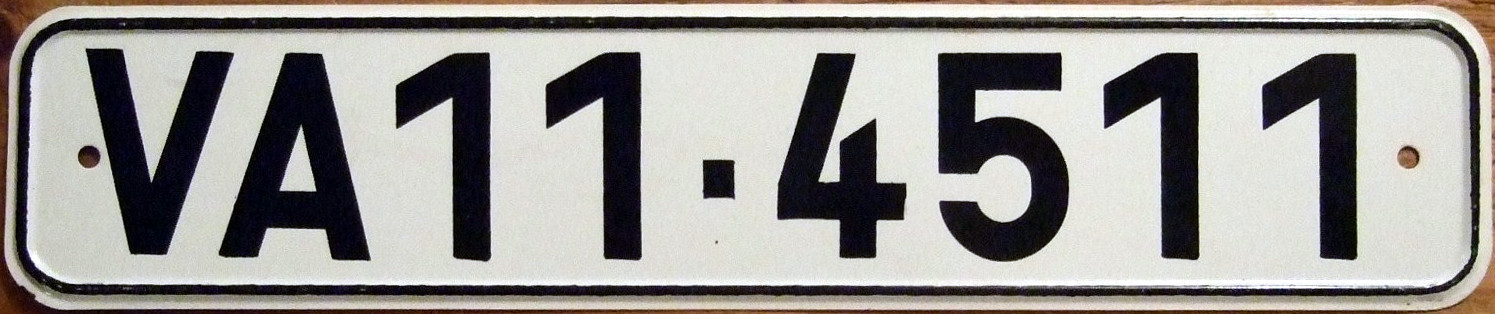 East German miltary plate with "VA" prefix, pre Unification. This plate has painted lettering not the stick on letters common on East German plates.